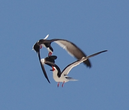 Birds of Core Banks, North Carolina: two Black Skimmer (Rynchops niger) fighting above nesting grounds near Drum Inlet